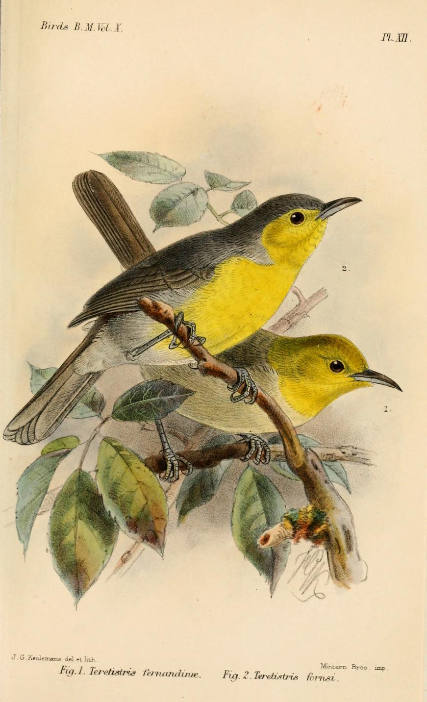 Teretistris fornsi, Oriente Warbler (above); and Teretistris fernandinae, Yellow-headed Warbler (below)